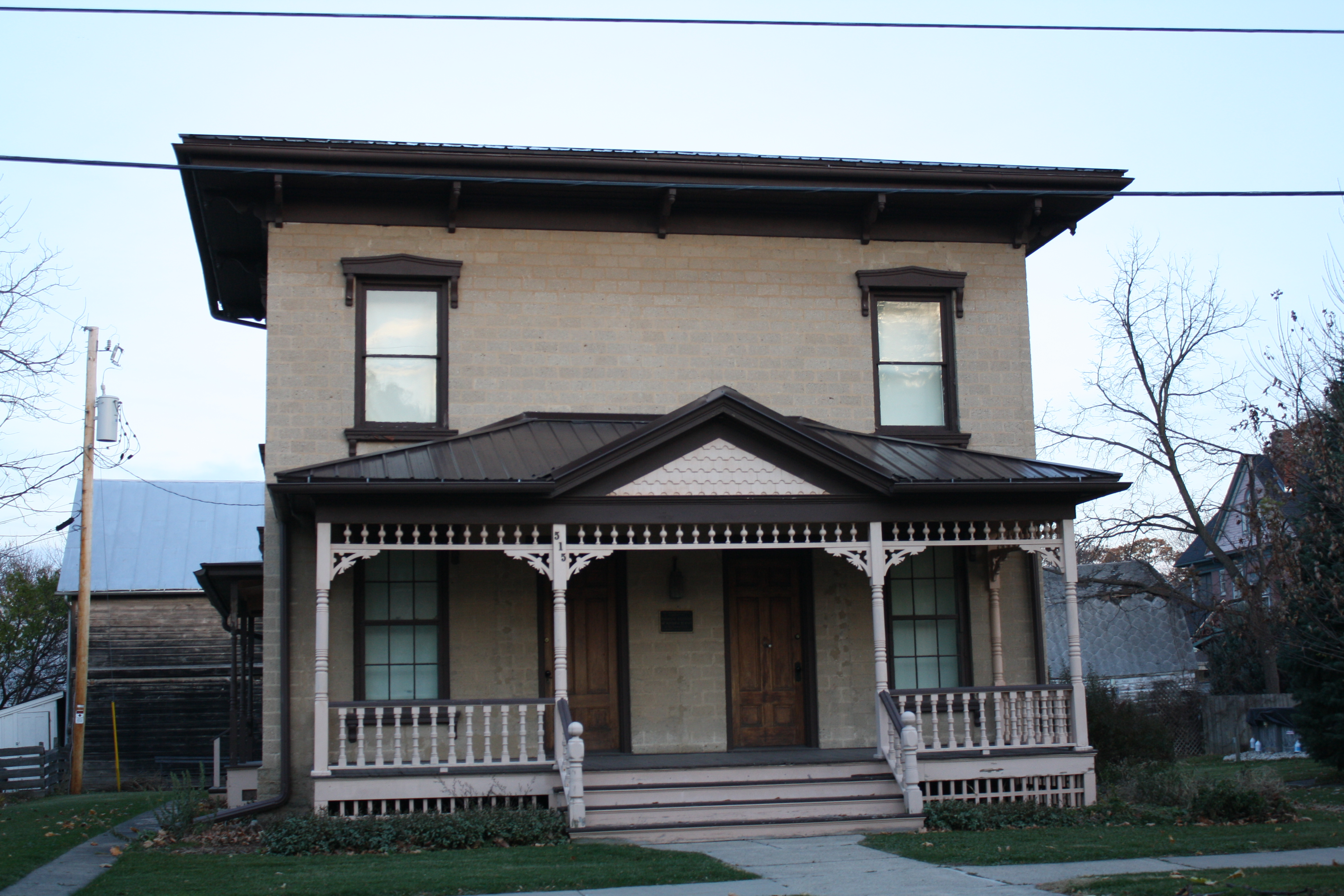 The Marcellus Pedrick House in Ripon, Wisconsin. It is listed on the National Register of Historic Places.